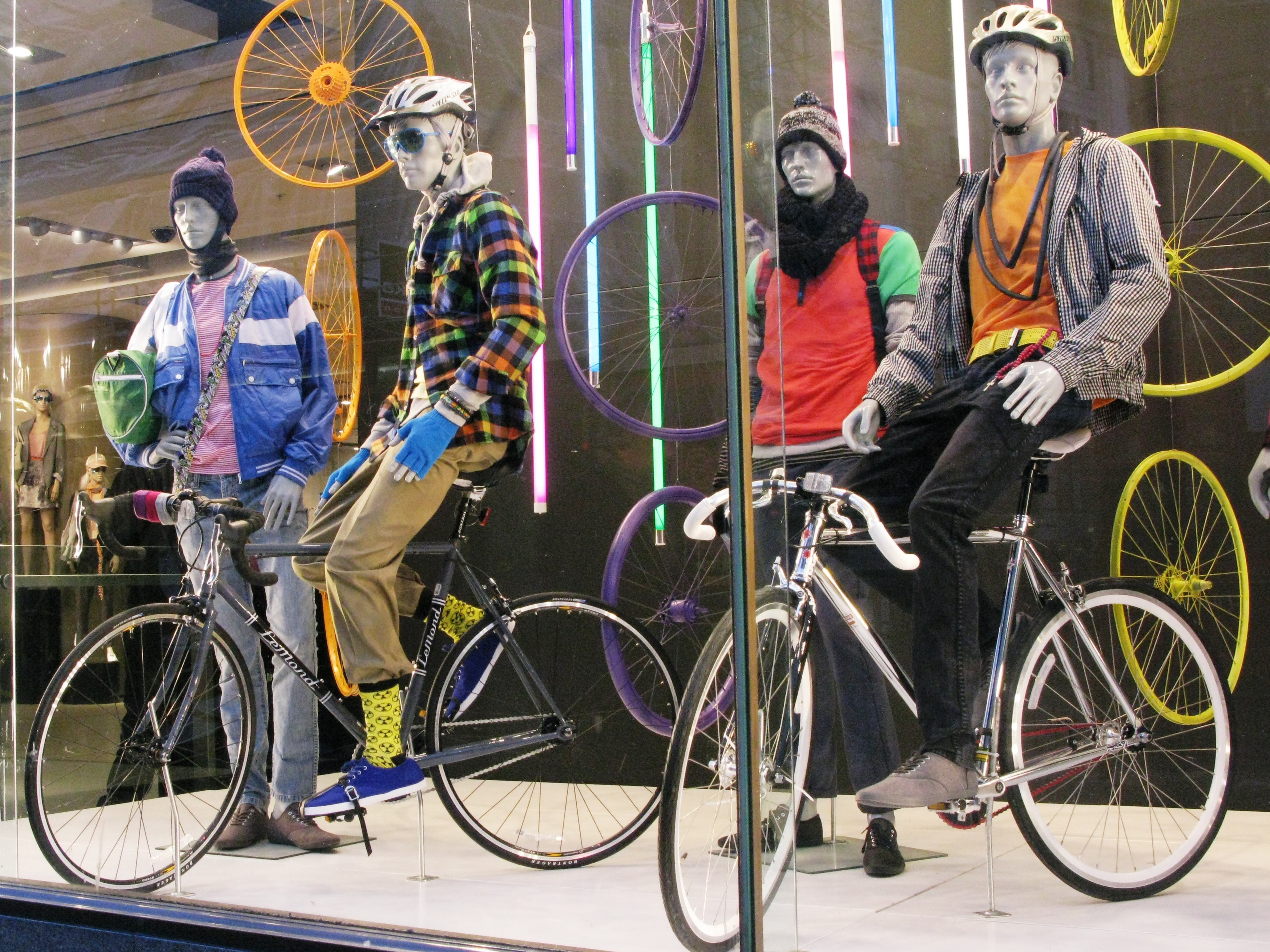 Window display in Oxfrd Street, London - cycle chic hits the high street